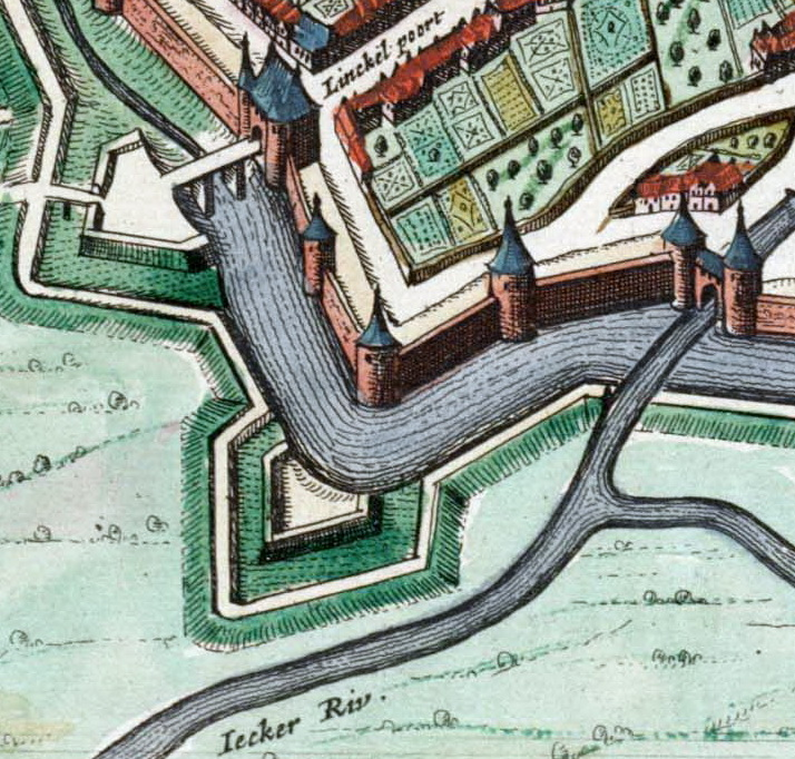 Maastricht, the Netherlands. Detail of a map of Maastricht by Joan Blaeu, 1649, showing the southwestern part of the city wall around Jezuïetenwal and Tongersekat